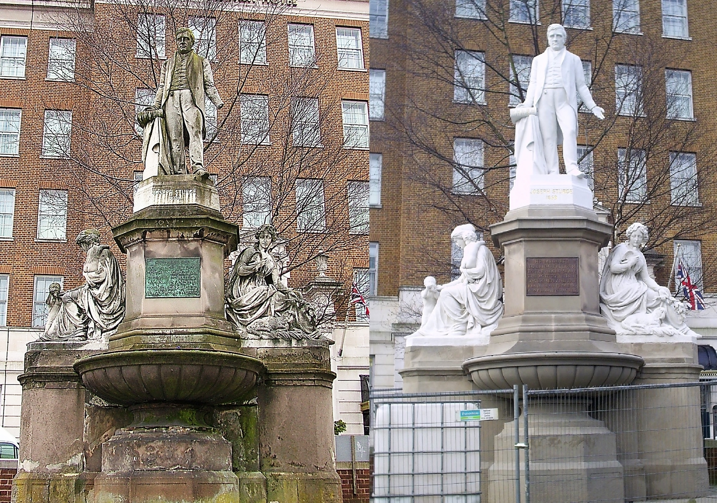 A collage showing the Sturge Memorial in 2005 and in 2007 after the restoration work carried out thanks to Birmingham City Council, The Birmingham Civic Society and the Sturge Family.